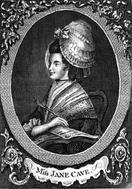 Jane Cave from her book "Poems on Various Subjects: Entertaining, Elegiac, and Religious, by Jane Cave" 1783